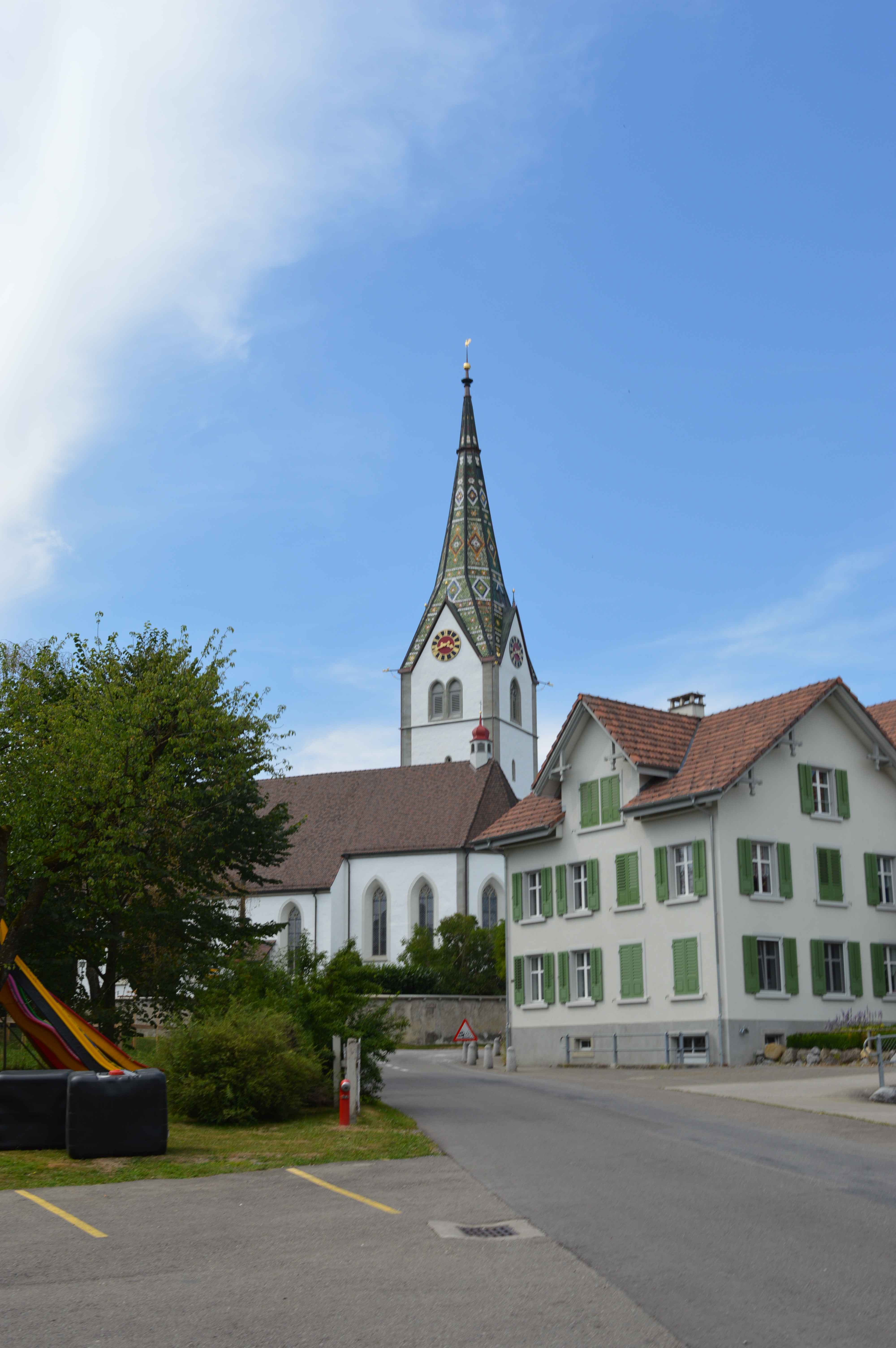 Church Sommeri, canton of Thurgovia, Switzerland